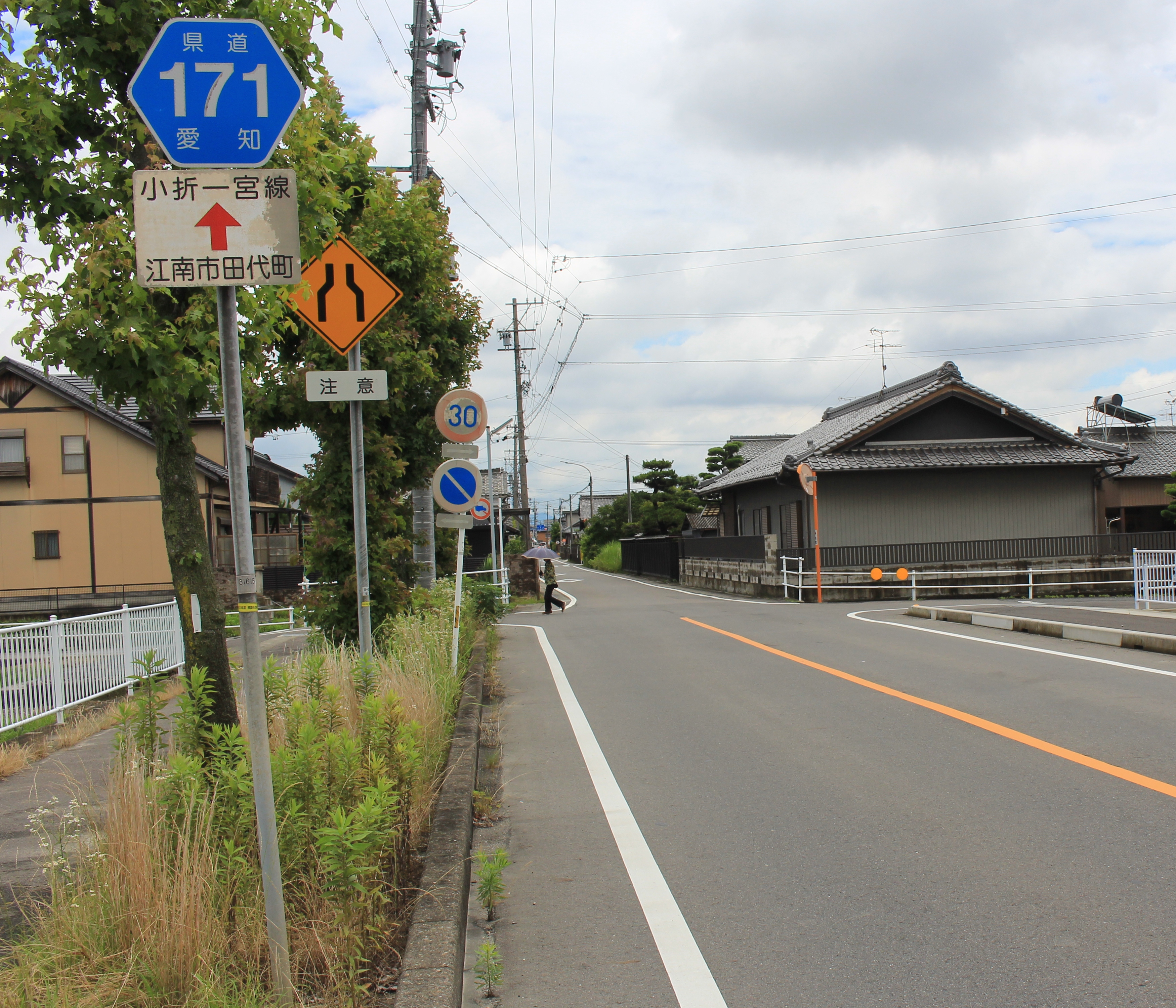 Aichi Prefectural Road Route 171, in Tashiro, Konan, Aichi prefecture, Japan.